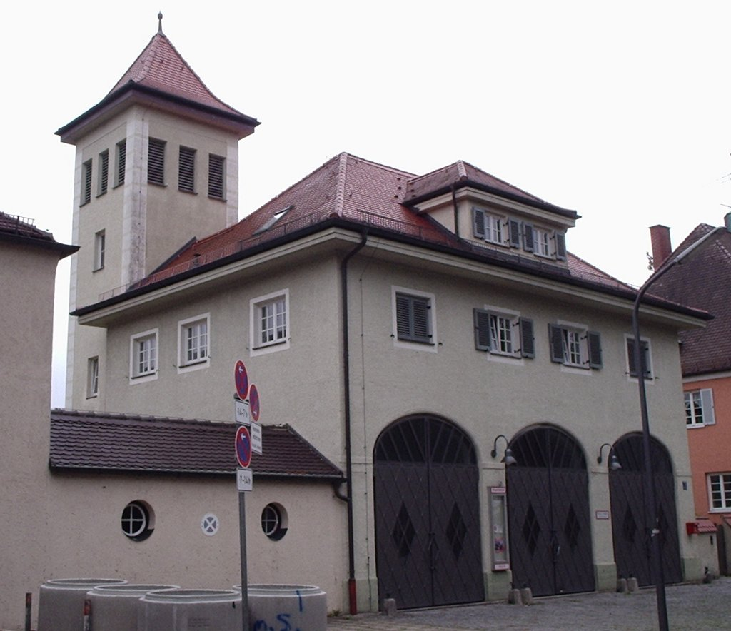 Fire station at Stridbeckstraße, Solln, Munich, Germany.